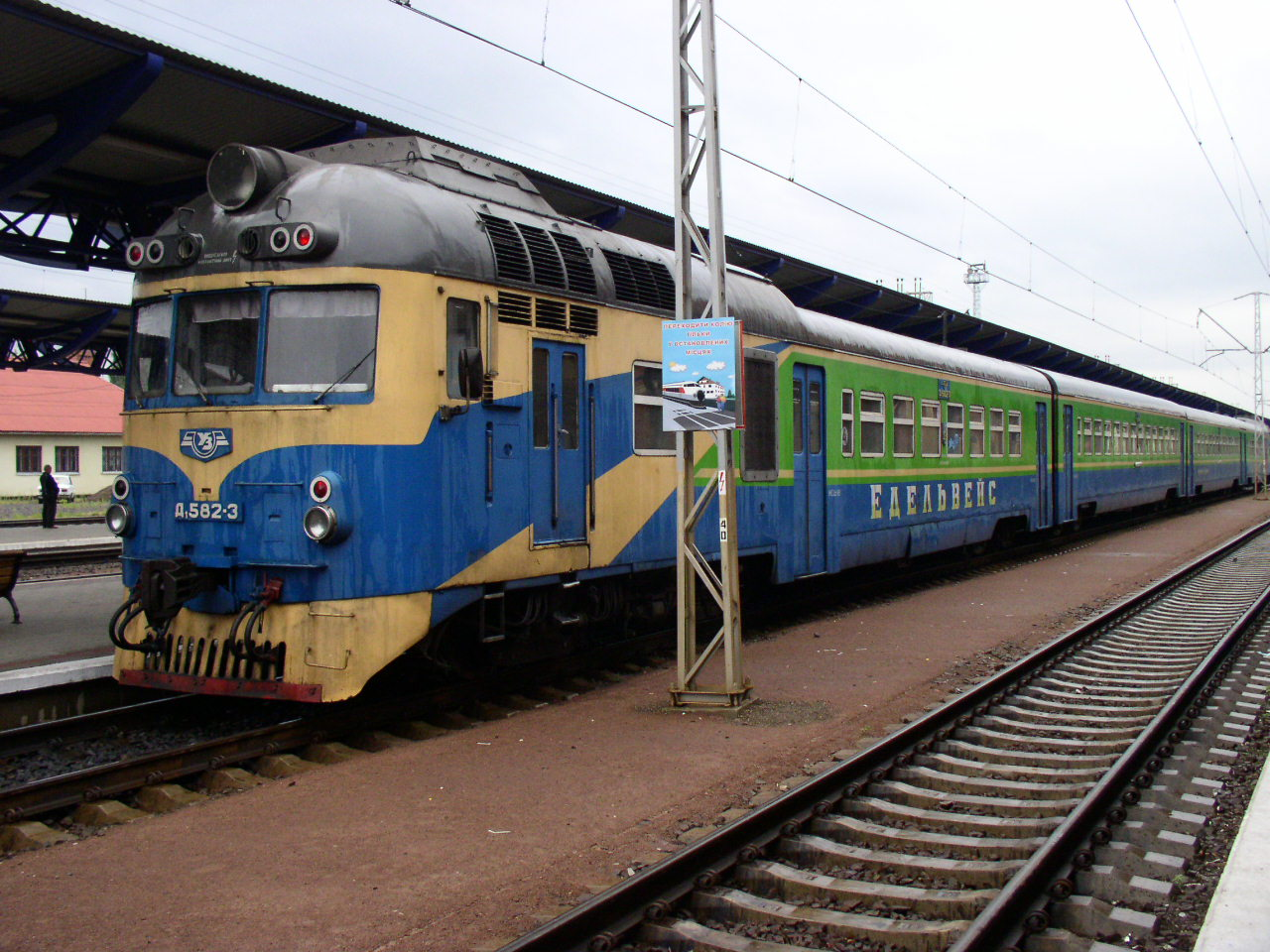 "Edelweiss" diesel, Ukraine.